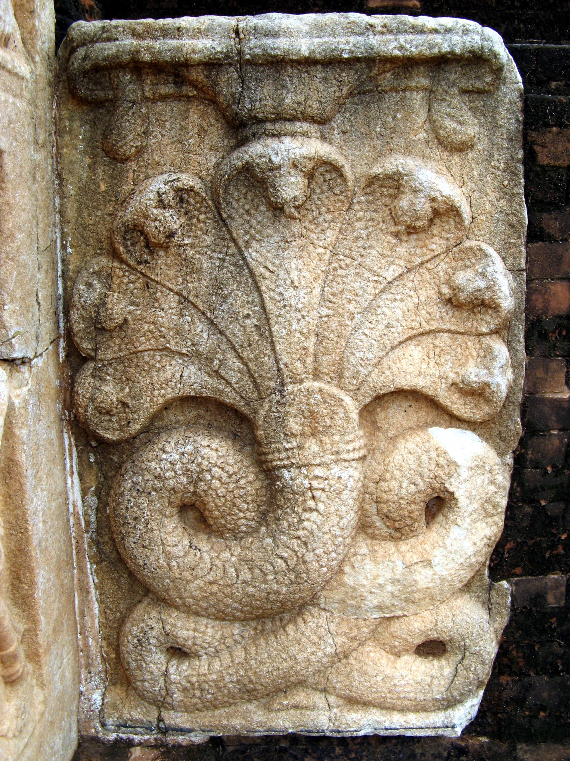 An impressive, seven-headed naga (snake) appears just to the right of the nagaraja couple located at the right corner of the stupa's south vahalkada. The cobra here appears in completely animal form, the hoods spreading out above its doubly-coiled snake body. It is a protective figure, perhaps one of the "subjects" of the naga king and queen.